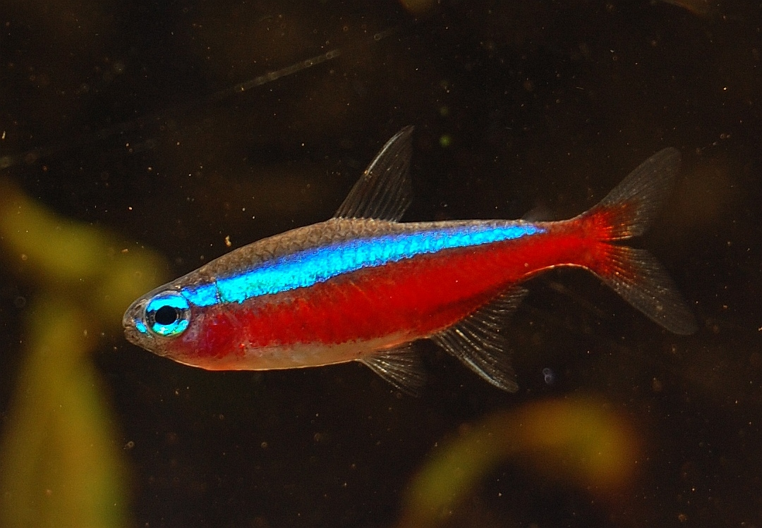 Image of the Kardinal Tetra fish. (Paracheirodon axelrodi)